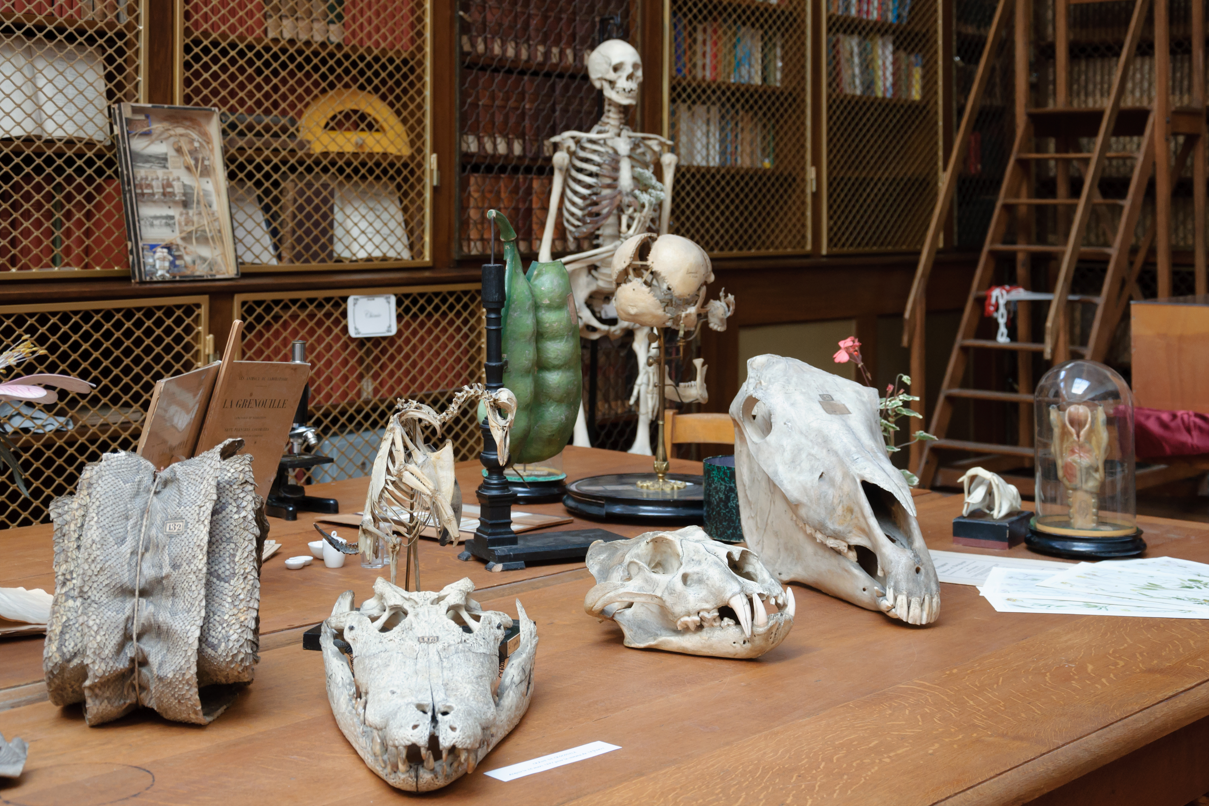 Lycée Michelet in Vanves, Hauts-de-Seine, France: exhibition of the natural history collection during the 150th anniversary of the institution.